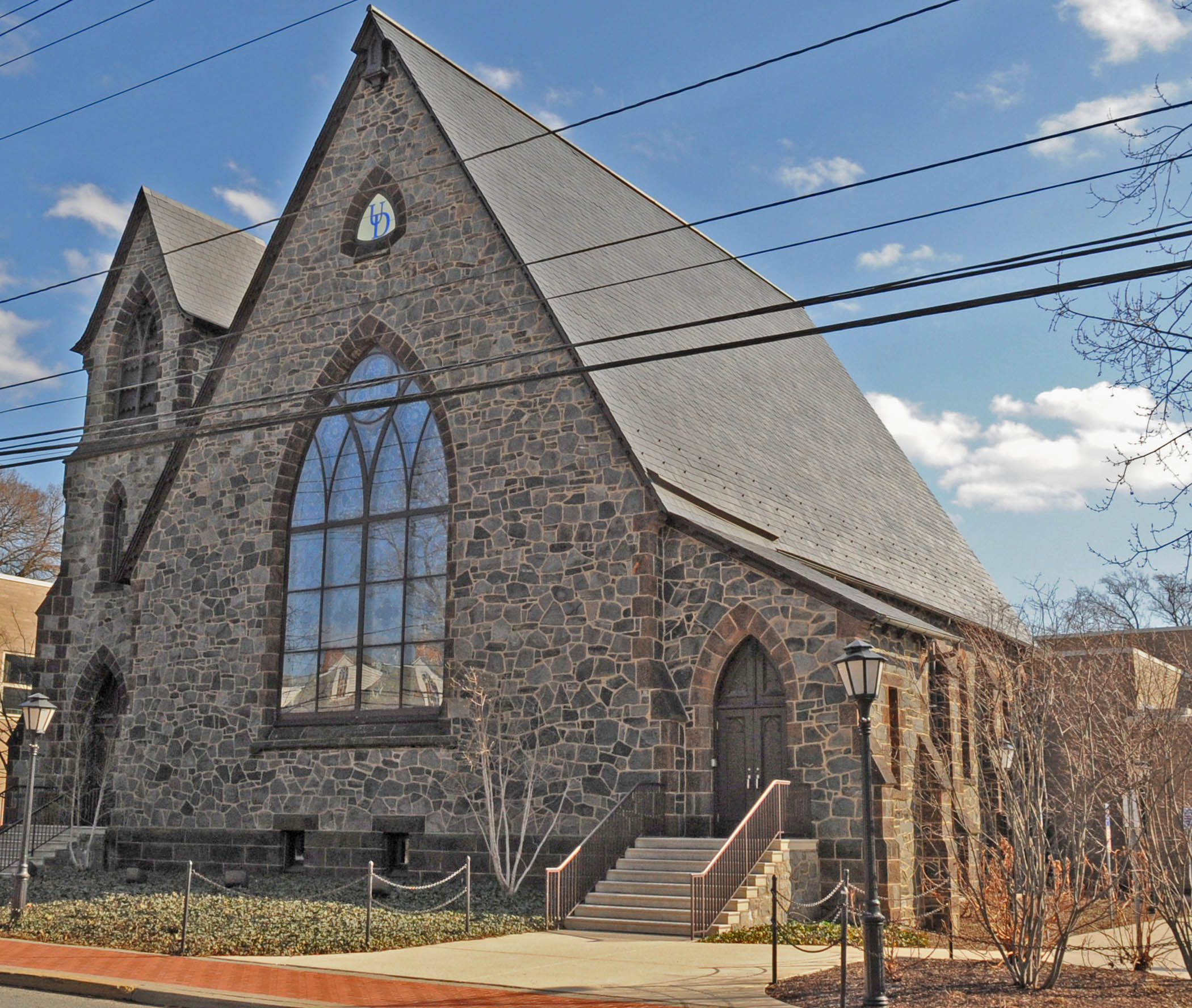 BUILT IN 1868 IN GOTHIC REVIVAL STYLE. THE CHURCH WAS SOLD TO THE UNIVERSITY IN 1968 AND IS NOW USED AS A STUDY HALL.